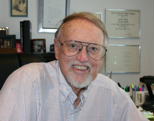 Photo of composer/arranger Frank Comstock (2004)